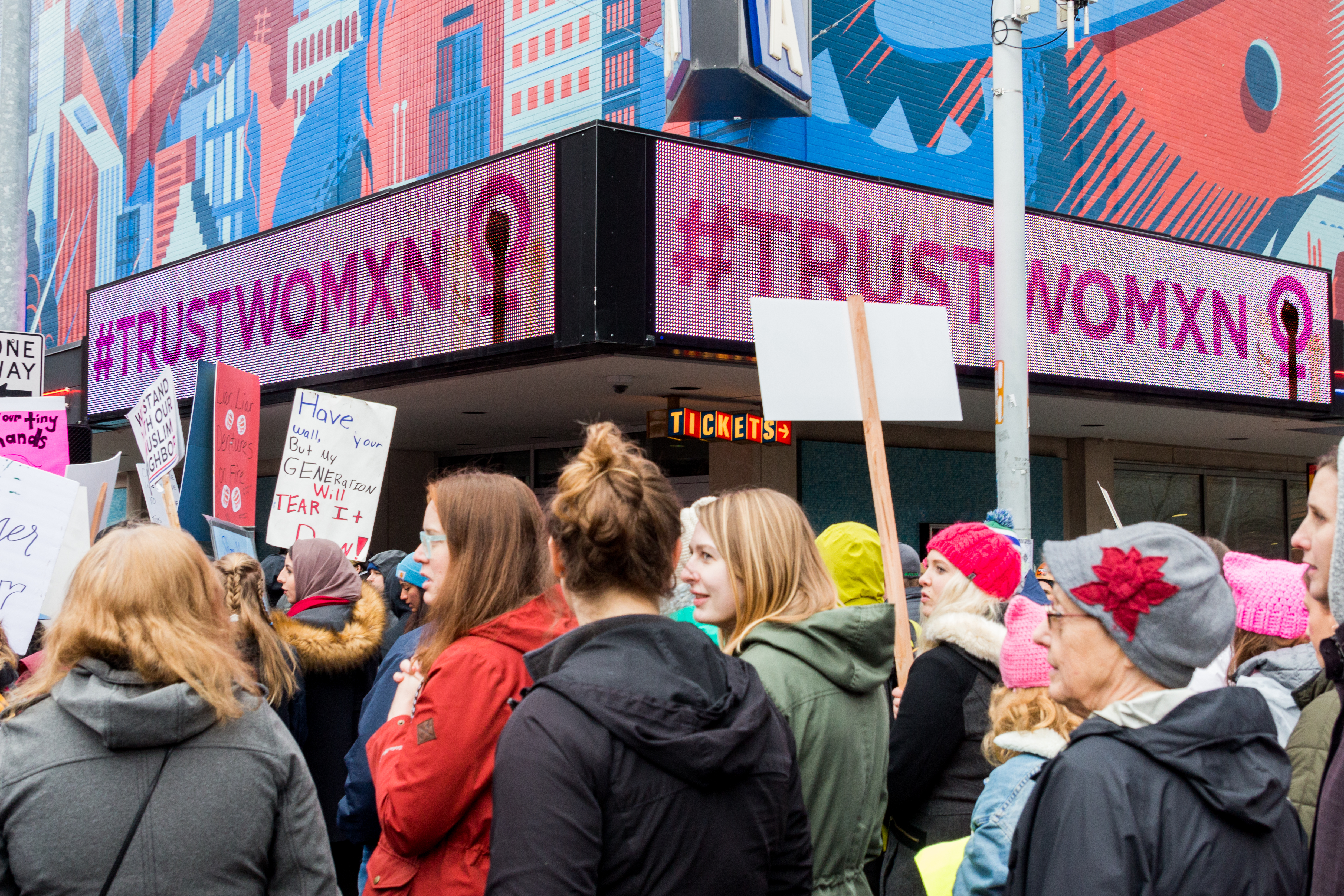 January 20, 2018 Seattle Washington Womxn March